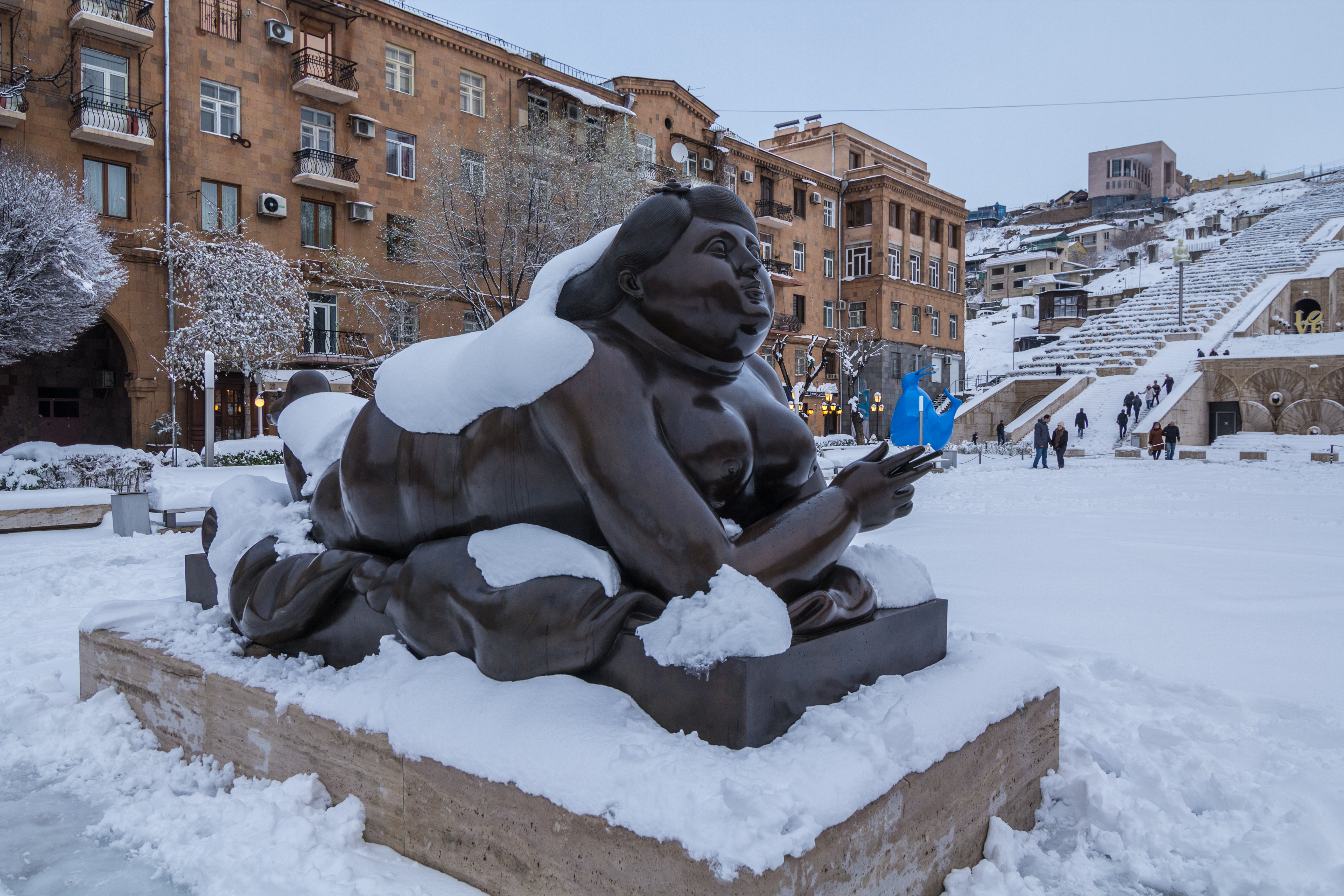 Fernando Botero, Mujer Fumando un Cigarrillo (Woman Smoking a Cigarette), 1987 bronze, dark brown patina, The Gerard L. Cafesjian Collection. At the Cafesjian Center for the Arts in Yerevan, Armenia.